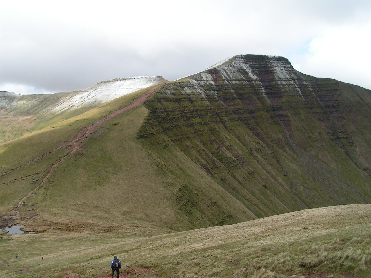 Pen y Fan (886m) from Cribyn. Photograph taken 16th April 2005. This work has been released into the public domain by its author, Dave.Dunford. This applies worldwide. In some countries this may not be legally possible; if so: Dave.Dunford grants anyone the right to use this work for any purpose, without any conditions, unless such conditions are required by law.